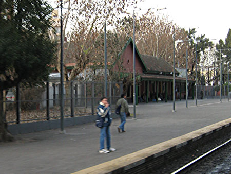 Santos Lugares Train Station